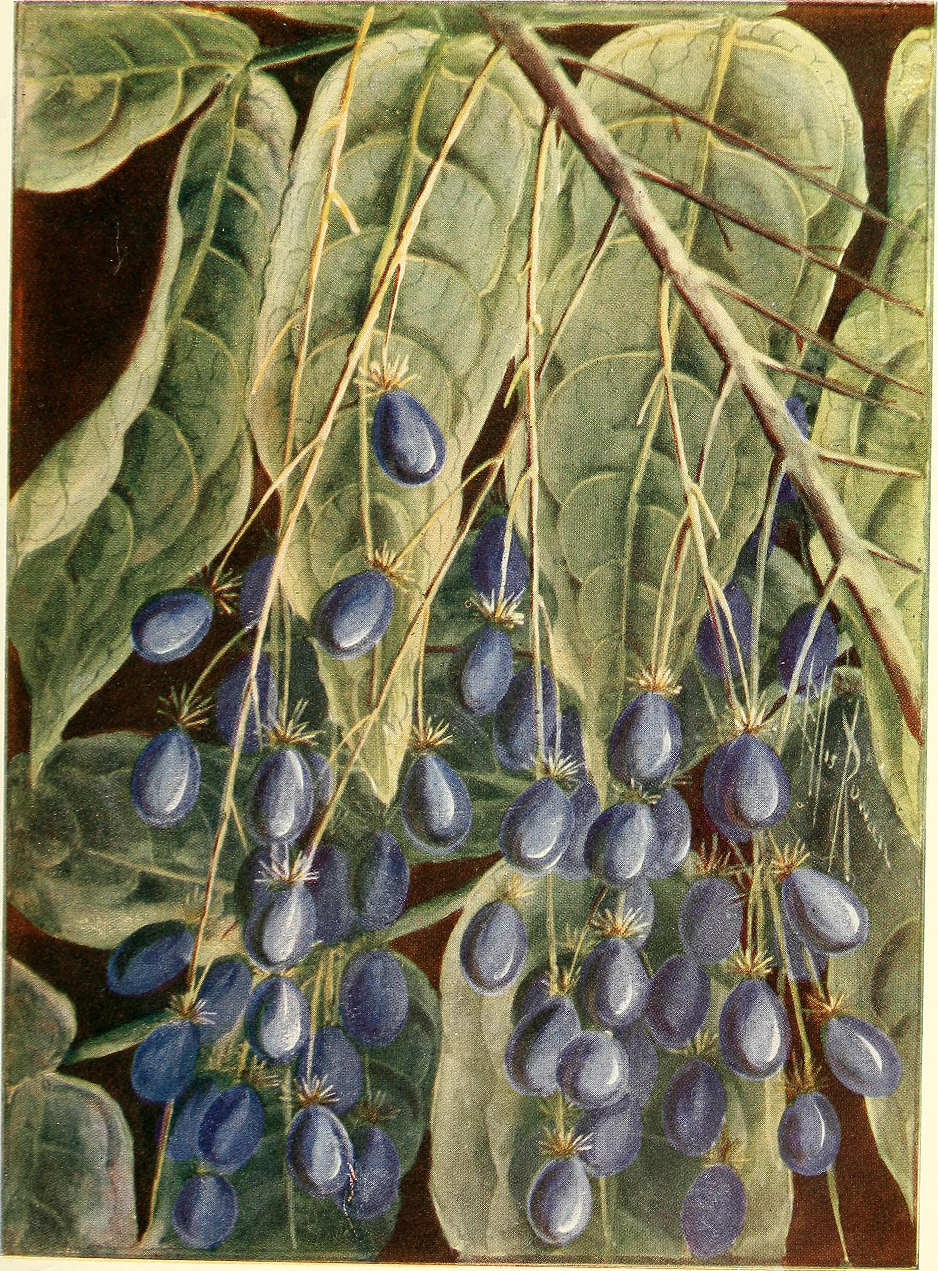 Delabrea michieana, F. v. M. [sic] Title: Comprehensive catalogue of Queensland plants, both indigenous and naturalised. To which are added, where known, the aboriginal and other vernacular names; with numerous illustrations, and copious notes on the properties, features, &c., of the plants Year: 1909 (1900s) Authors: Bailey, Frederick Manson, 1827-1915 Subjects: Botany Publisher: Brisbane, A. J. Cumming, government printer Text Appearing Before Image: 232 LXI. ARALIACE^. Series III.—Diplozygle. Tribe V.—Caucaline^e. *Coriandnim, Linn. sativum, Linn.—Coriander. Europe. The seeds of this planthave been used as a spice for many years.Daucus, Linn.—Carrot. brachiatus, Linn. Order LXI.—ARALIACEJE. Series I.—Aralie.e. Delarbrea, Vicih. = Porospennum, F. v. M. Michieana, F. v. M. (Plate X.)Aralia, Linn. Macdowalli, F. v. M.Pentapanax, Seem. Willmottii, F. v. M. (Fig. 199.) bellenden-kerensis, Bail. (Fig. 200.) Series II.—Mackinlayie^e. Mackinlaya, F. v. M. macrosciadum, F. v. M.confusa, Hemsl. Series III.—Panace.e. Astrotricha, DC. pterocarpa, Benth. (Fig. 201.)floccosa, DC. var. brevifolia, F. v. M.longi folia. Be nth. var. glabrescens, Bail.ledifolia, DC. var. glabriflora, F. v. M.Biddulphiana, F.v.M. (Fig. 202.)Motherwellia, F. v. M. haplosciadea, F. v, M.Panax, Linn. Murrayi, F. v. M.— Koorgarrie of Herberton natives. AA7ood useful for lining-boards,mollis, Benth.Macgillivrsei, Benth.sambucifolius, Sieb. PLATE X. Text Appearing After Image: Delabrea Michieana, F. LX. UMBELLIFER/E. 233